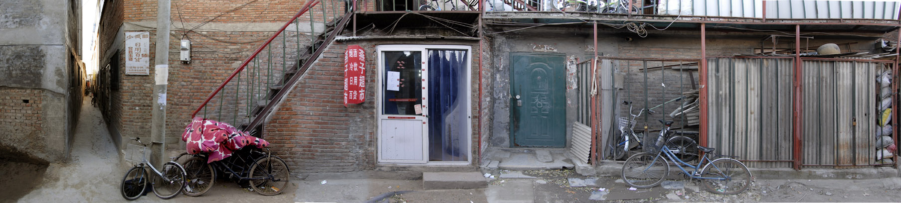 A panorama from the Eight Homes -suburb Beijing 2008